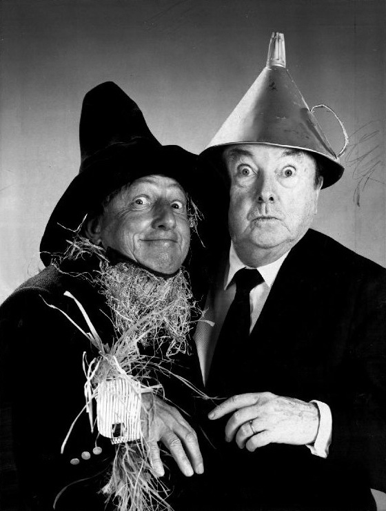 Publicity photo of American entertainers, Ray Bolger (left) and Jack Haley (right), reunited in 1970 in commemoration of their roles as the Scarecrow and the Tin Woodman respectively, in the 1939 feature film, The Wizard of Oz.